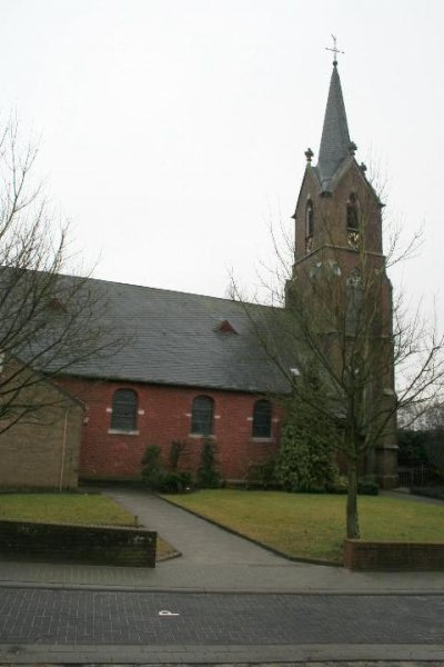 Cultural heritage monument No. 14 in Selfkant